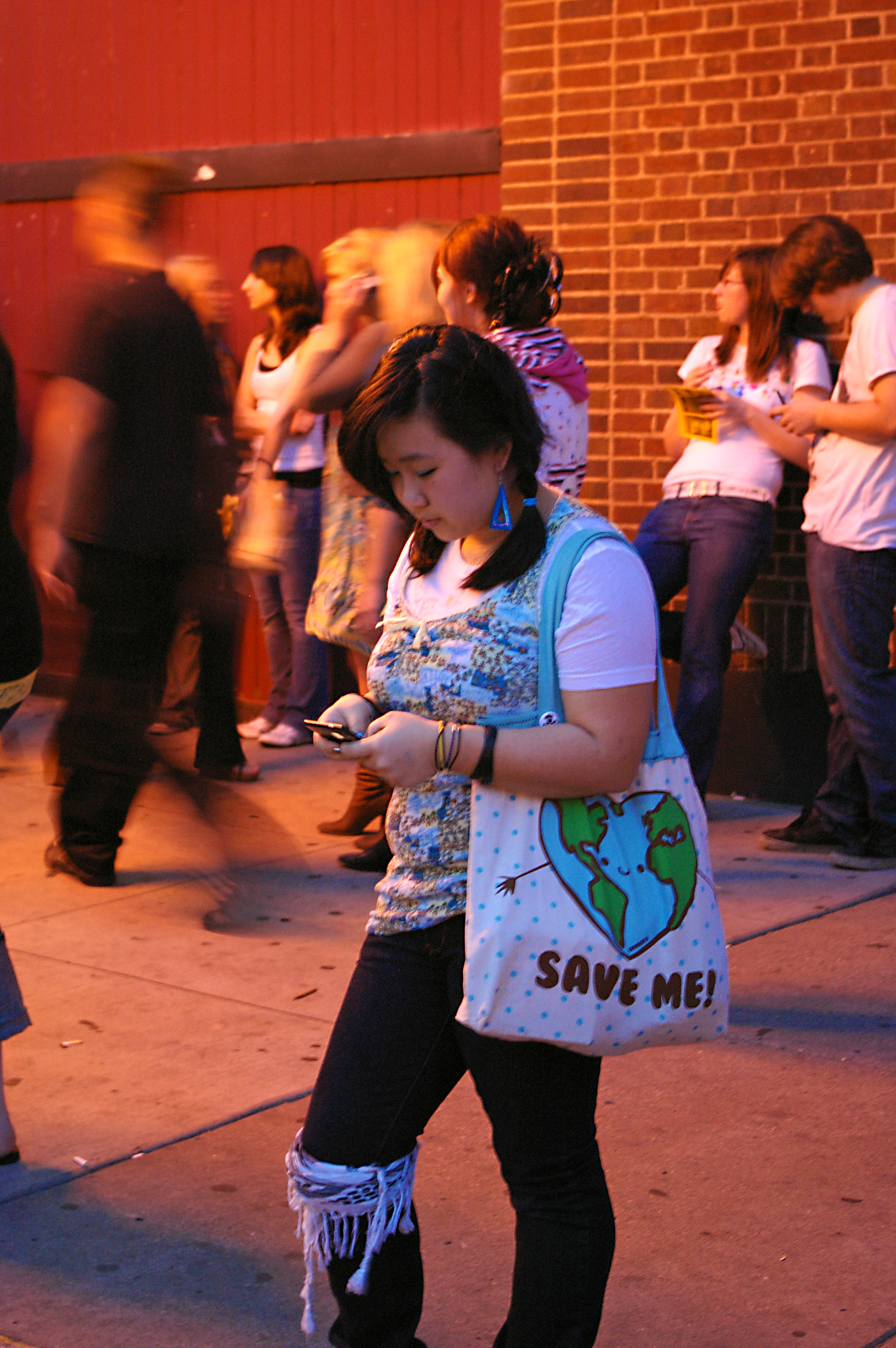 The wife asked this girl if we could take her picture (I certainly would have felt creepy going up to sixteen year old kids asking if I could take their picture). She nodded and kept texting away. I've said it before, and I'll say it again... next generation communication is the most accurate way to split out microgenerations. I'm from the old-school e-mail generation. I'll happily set my e-mail at work to refresh every five minutes, and I'm happy to check it and respond to it. The wife is more from the IM generation. I just don't get the impulse of immediate IMs. Seems a little rude to me. Then there are these goofy kids and their texting. They make me feel like Grandpa.